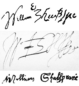 Three of William Shakespeare's surviving signatures, copied, cleaned and resized from existing Wikipedia images.